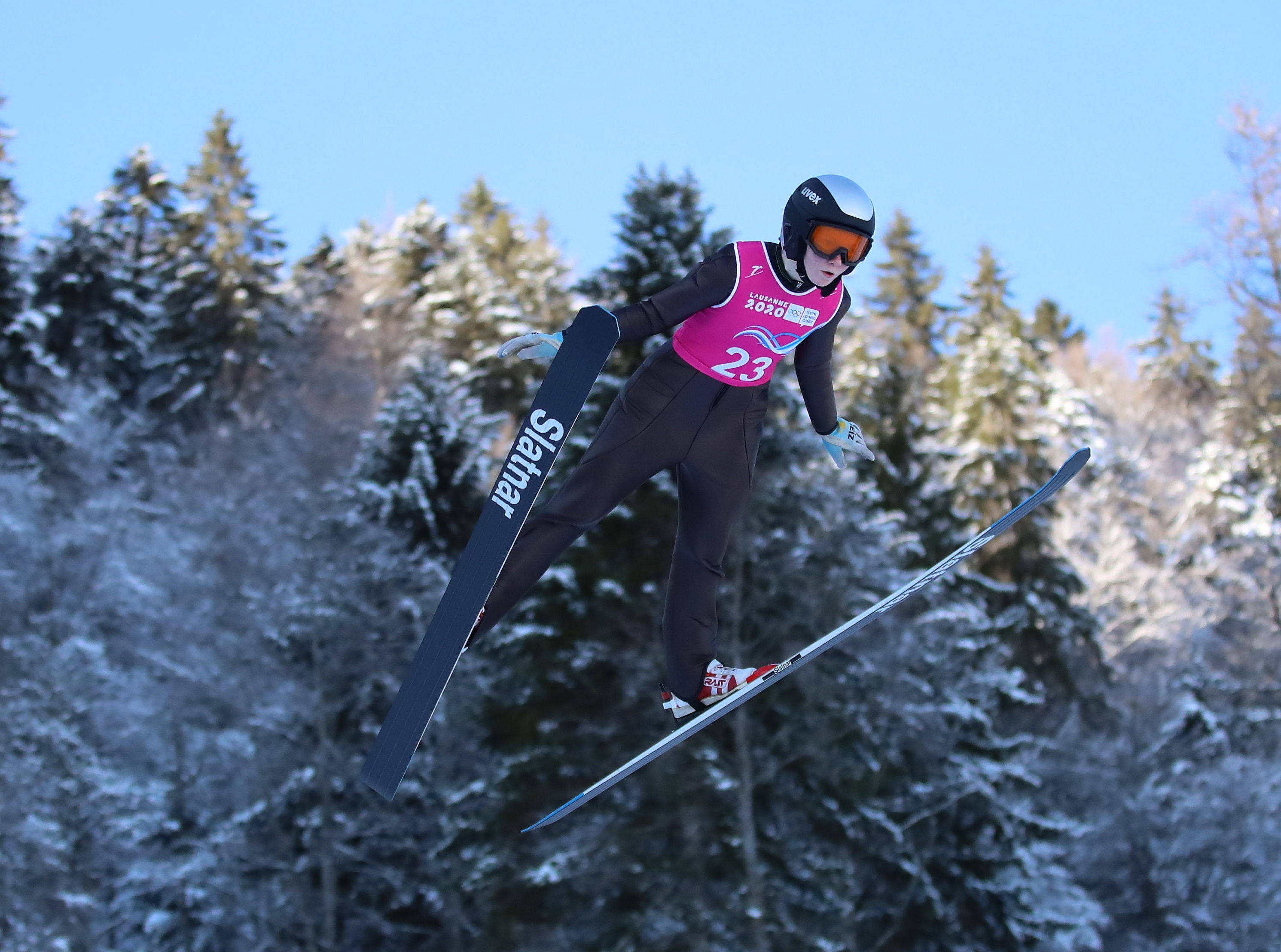 1st Round of Ski jumping – Women's Individual at the 2020 Winter Youth Olympics in Lausanne on 19 January 2020.